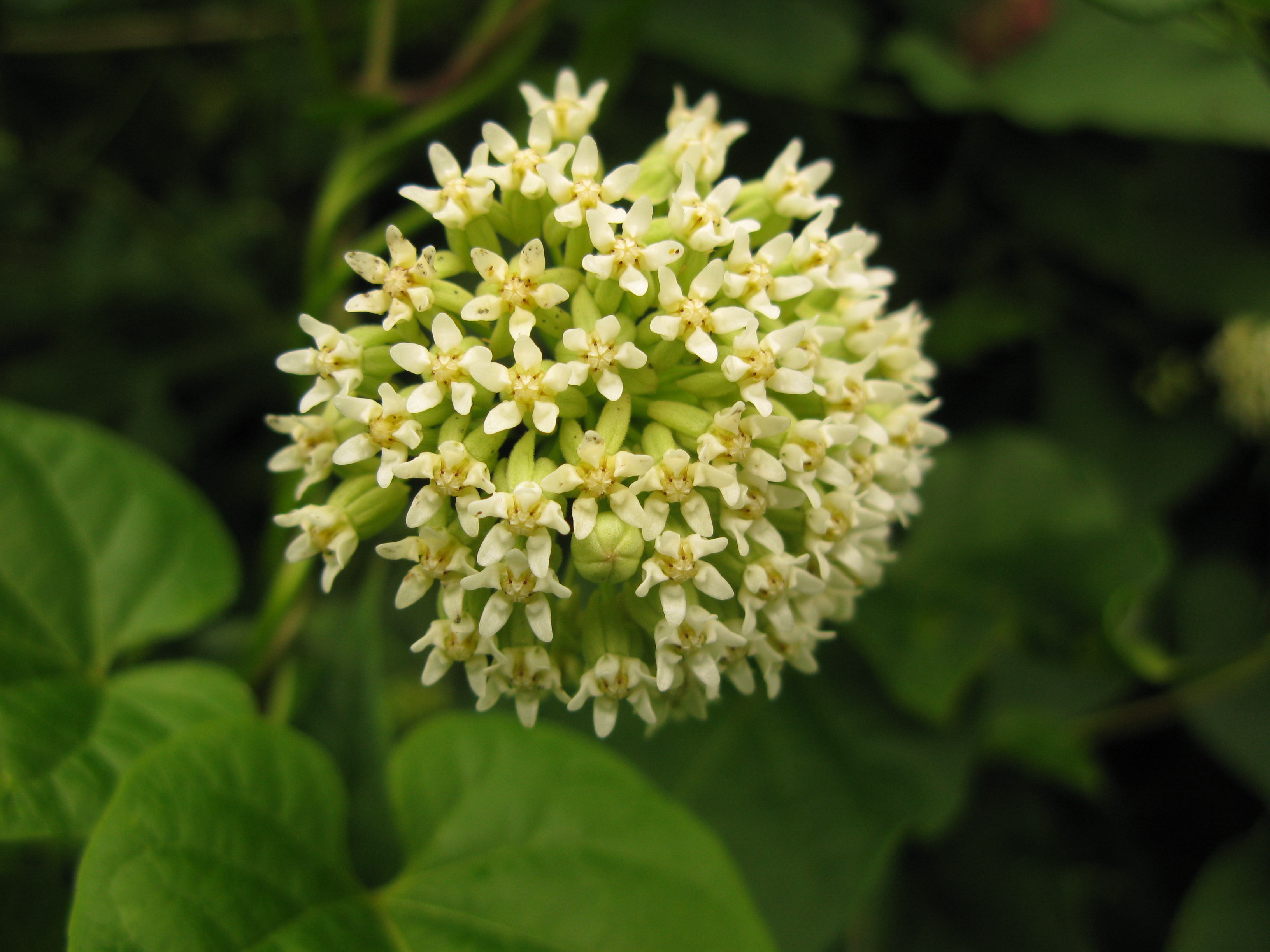 Cynanchum maximoviczii,Aizu area,Fukushima pref.,Japan